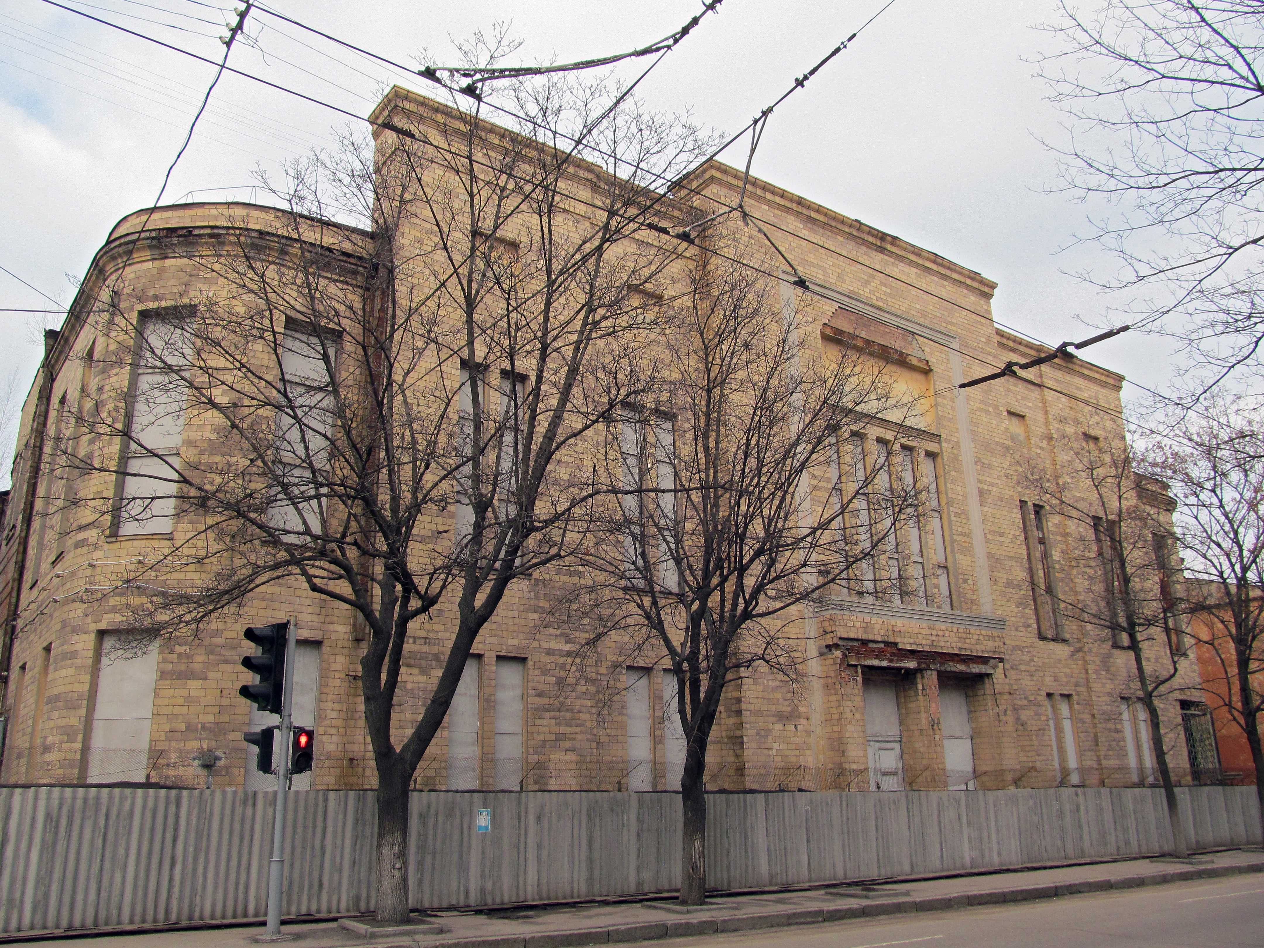 Blagovishchenska Street, 28, Kharkiv, Ukraine. Theatre "Mussuri".